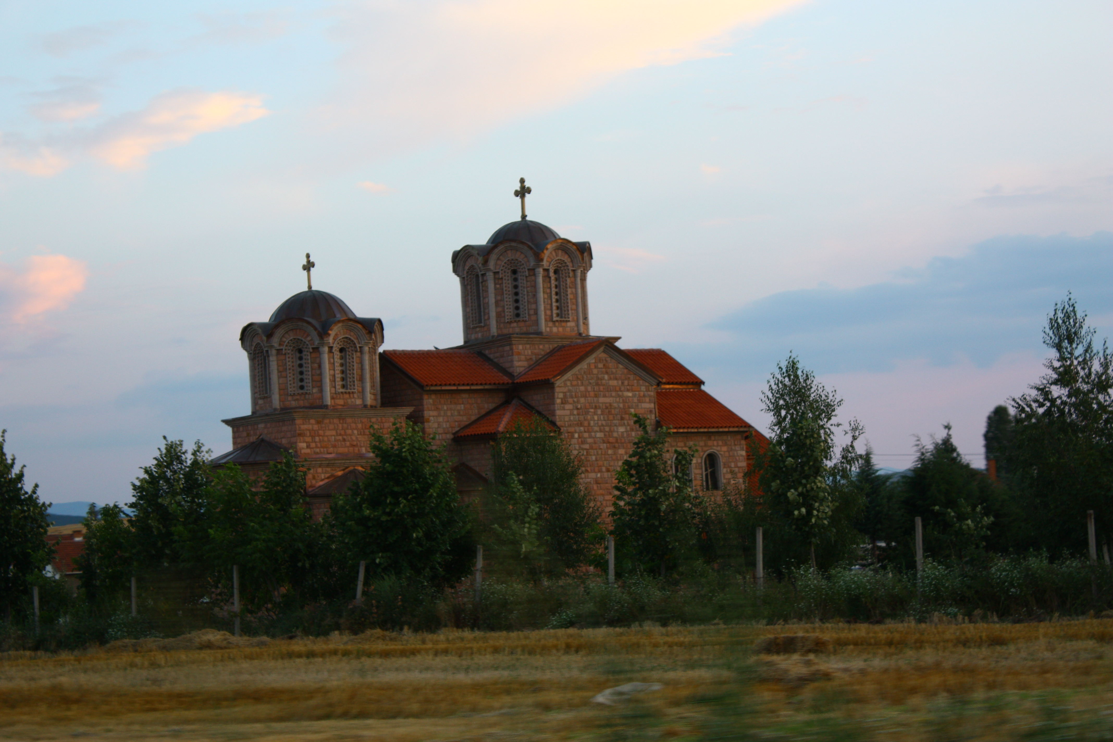 St. Petka Church in Lozovo, Macedonia